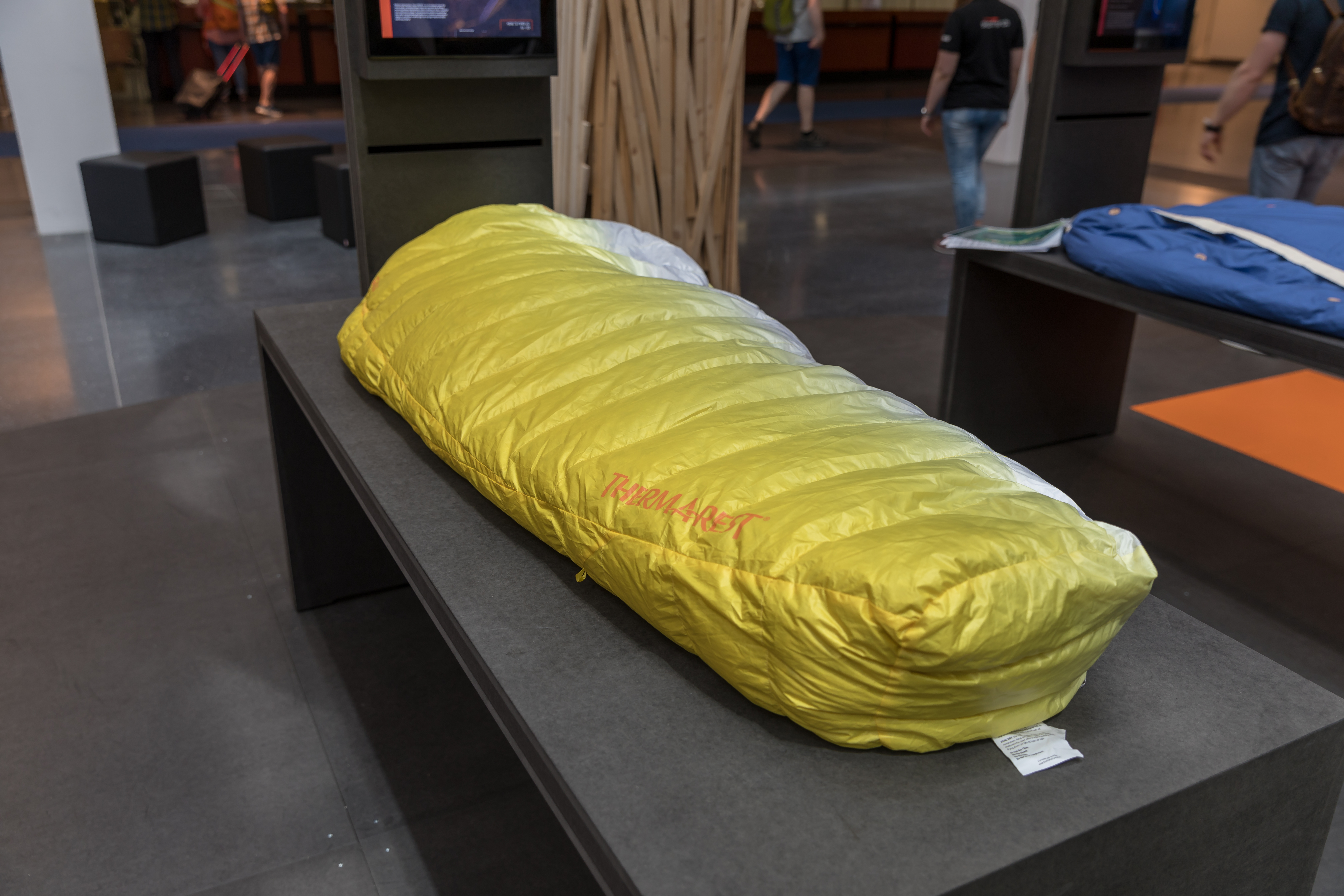 OutDoor 2018